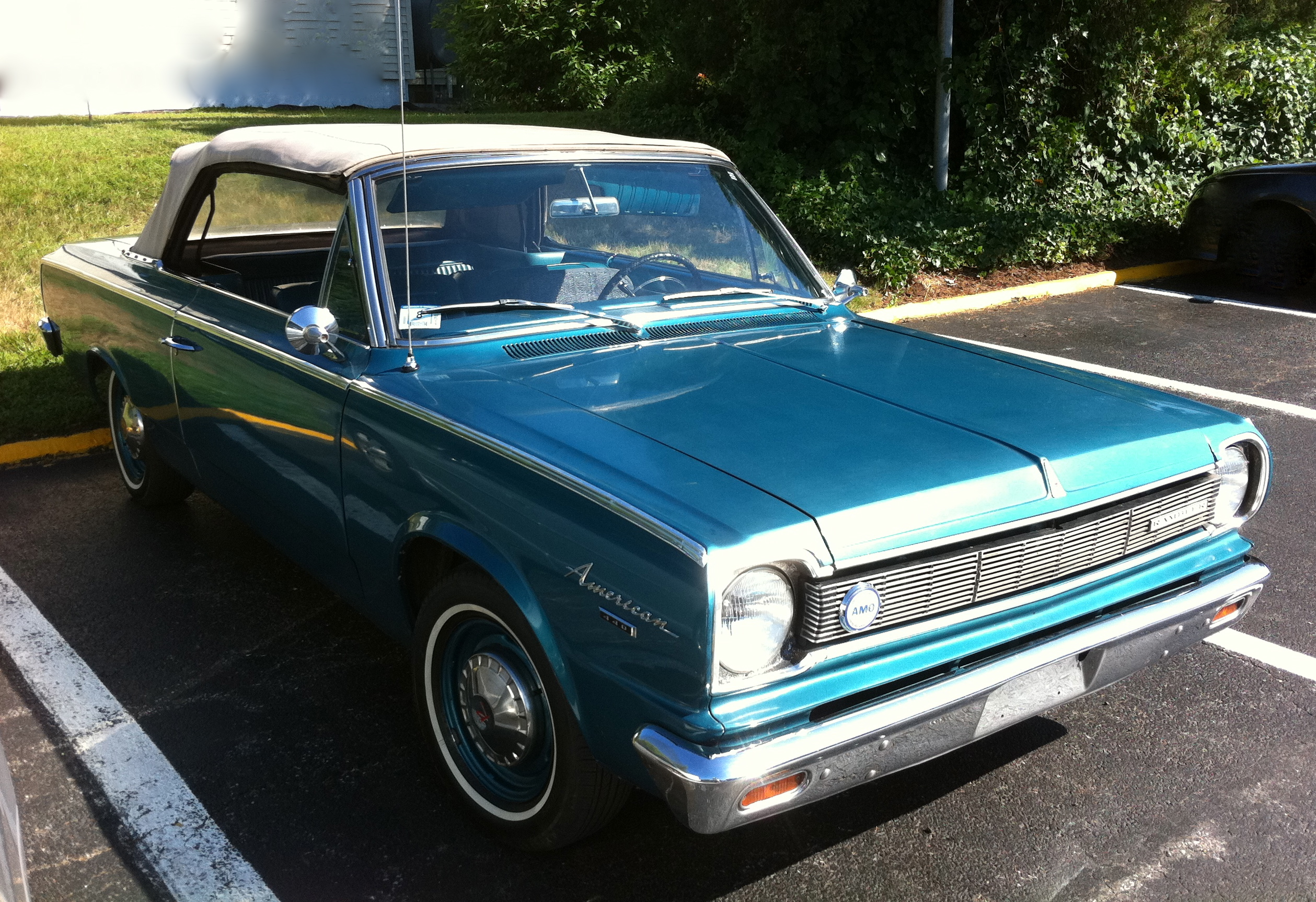 1966 Rambler American 440 convertible made by American Motors Corporation (AMC).